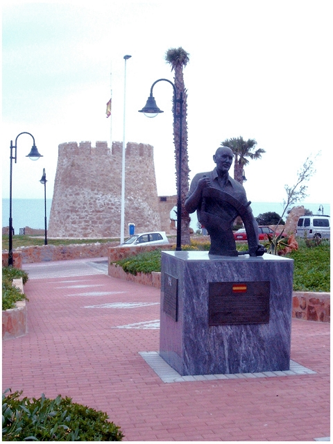 memorial for Nils Goebel in Torrevieja, Costa Blanca, Spain / in the background is the Torre del Moro (Moor's tower)